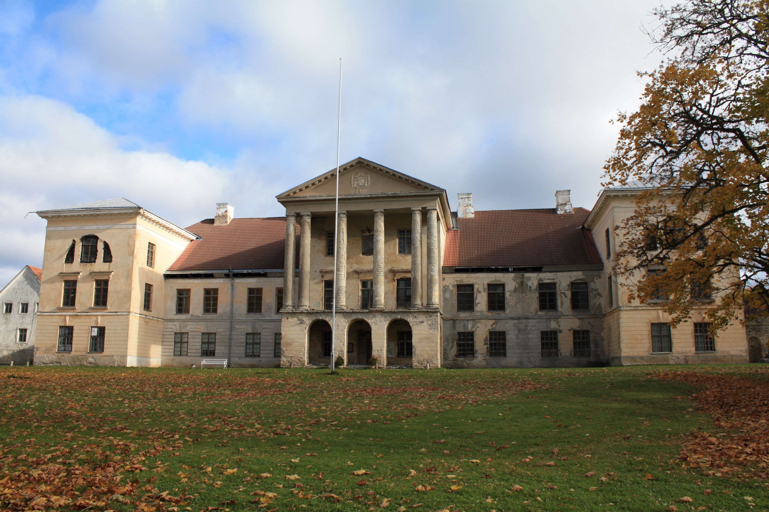 The main building of Kolga manor